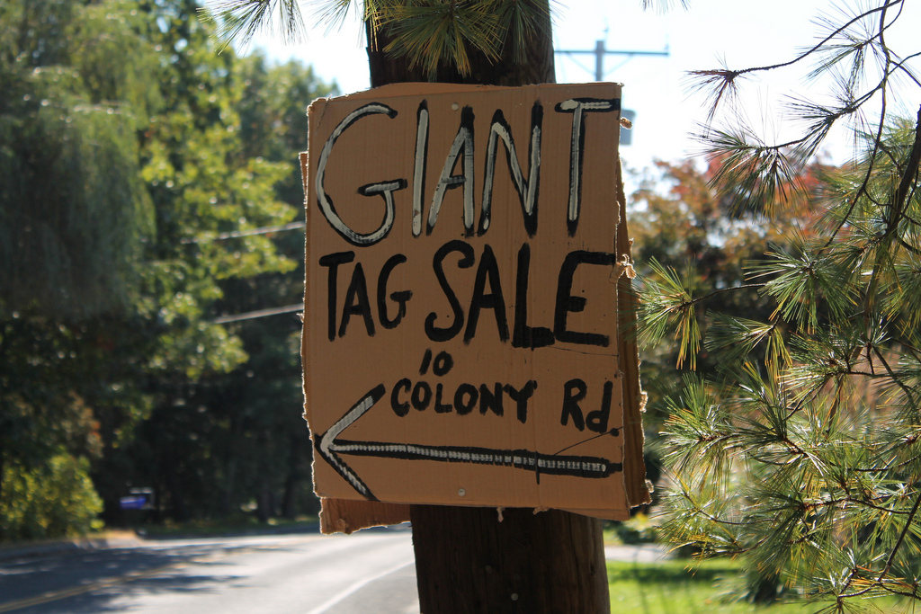 Picture of an example of a cardboard sign used to advertise tag sales.